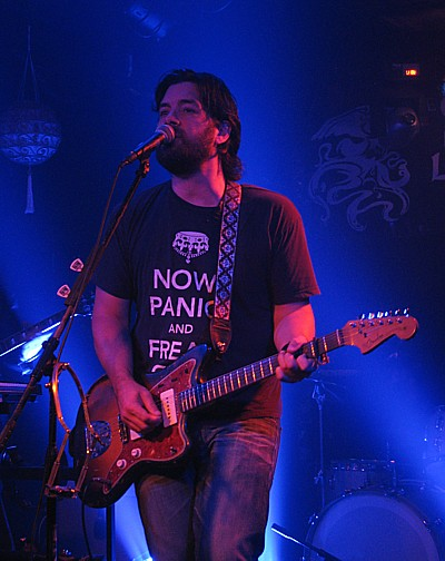 Bob Schneider performing at The Saint in Asbury Park, NJ during live recording session.